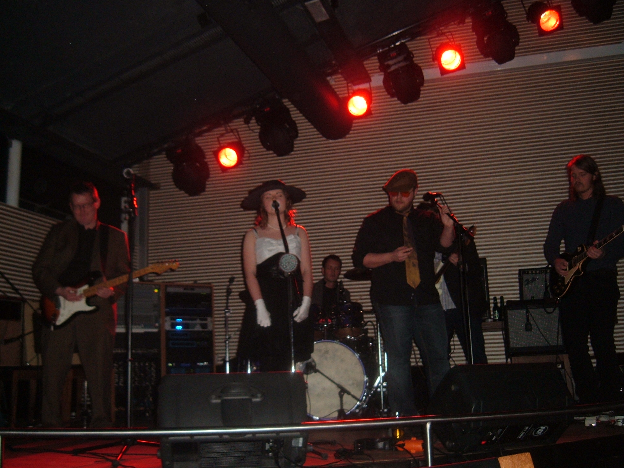 Klassart live at the Icelandic Blues Festival in Reykjavík, Iceland (I TOOK THIS PHOTO MYSELF!)